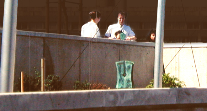 Framing sculptures. Parc de La Villette, Paris